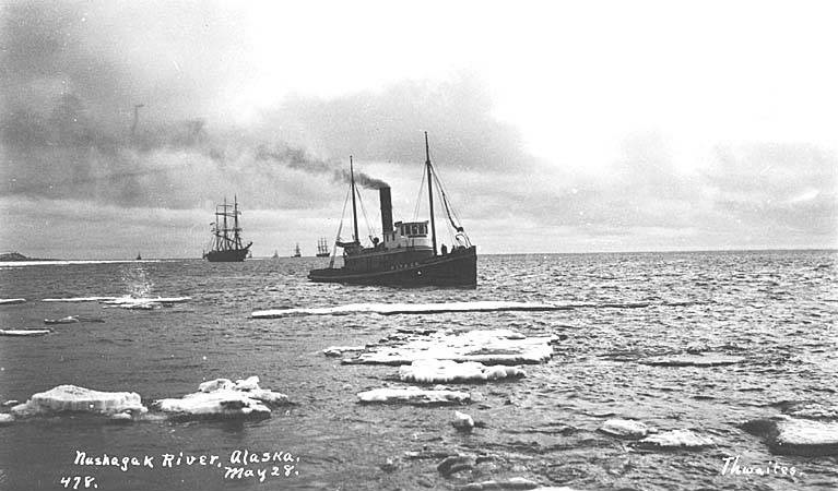 Steam tug Richard Holyoke on the Nushagak River in Alaska, circa 1912.